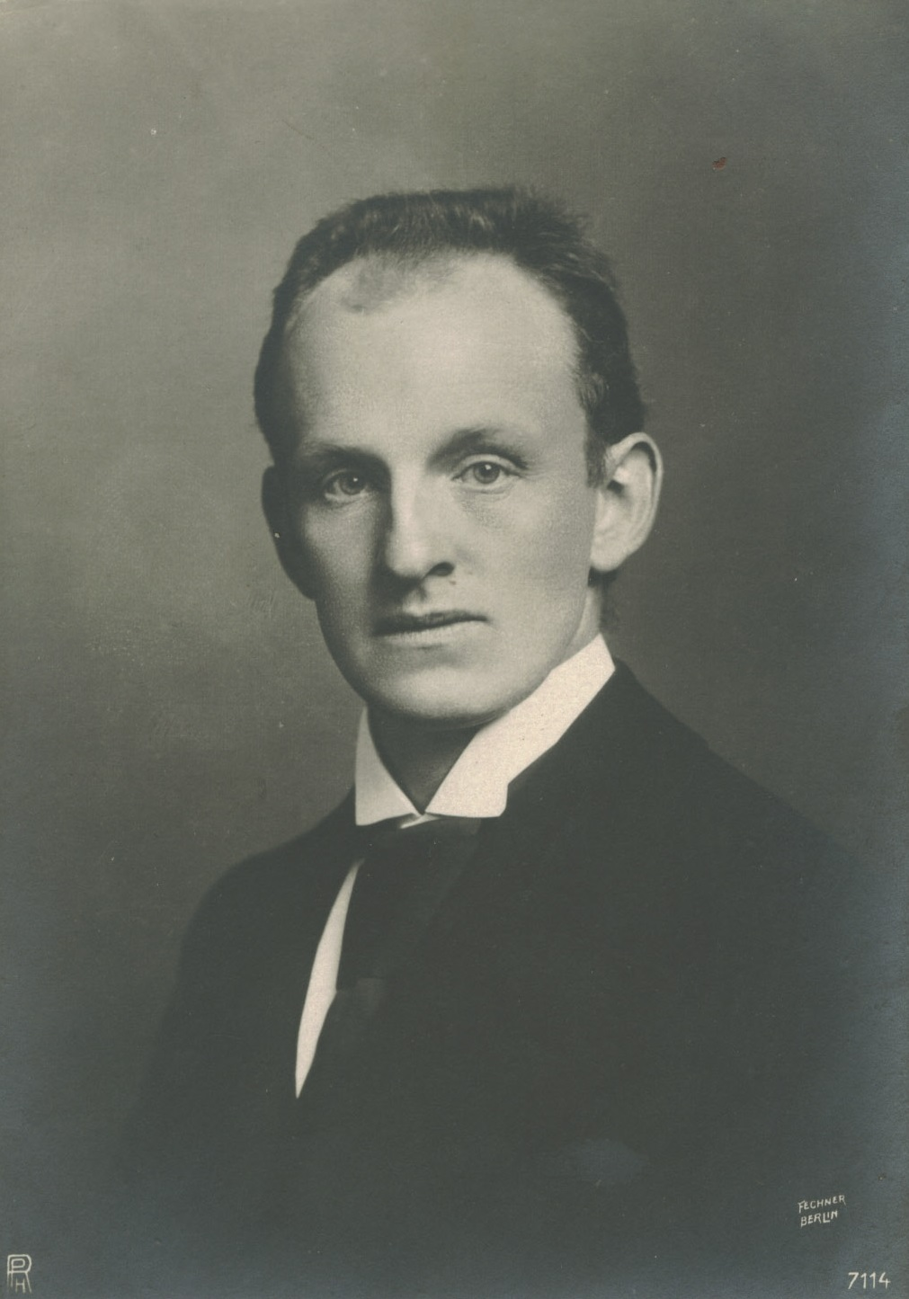 Photo of Gerhart Hauptmann